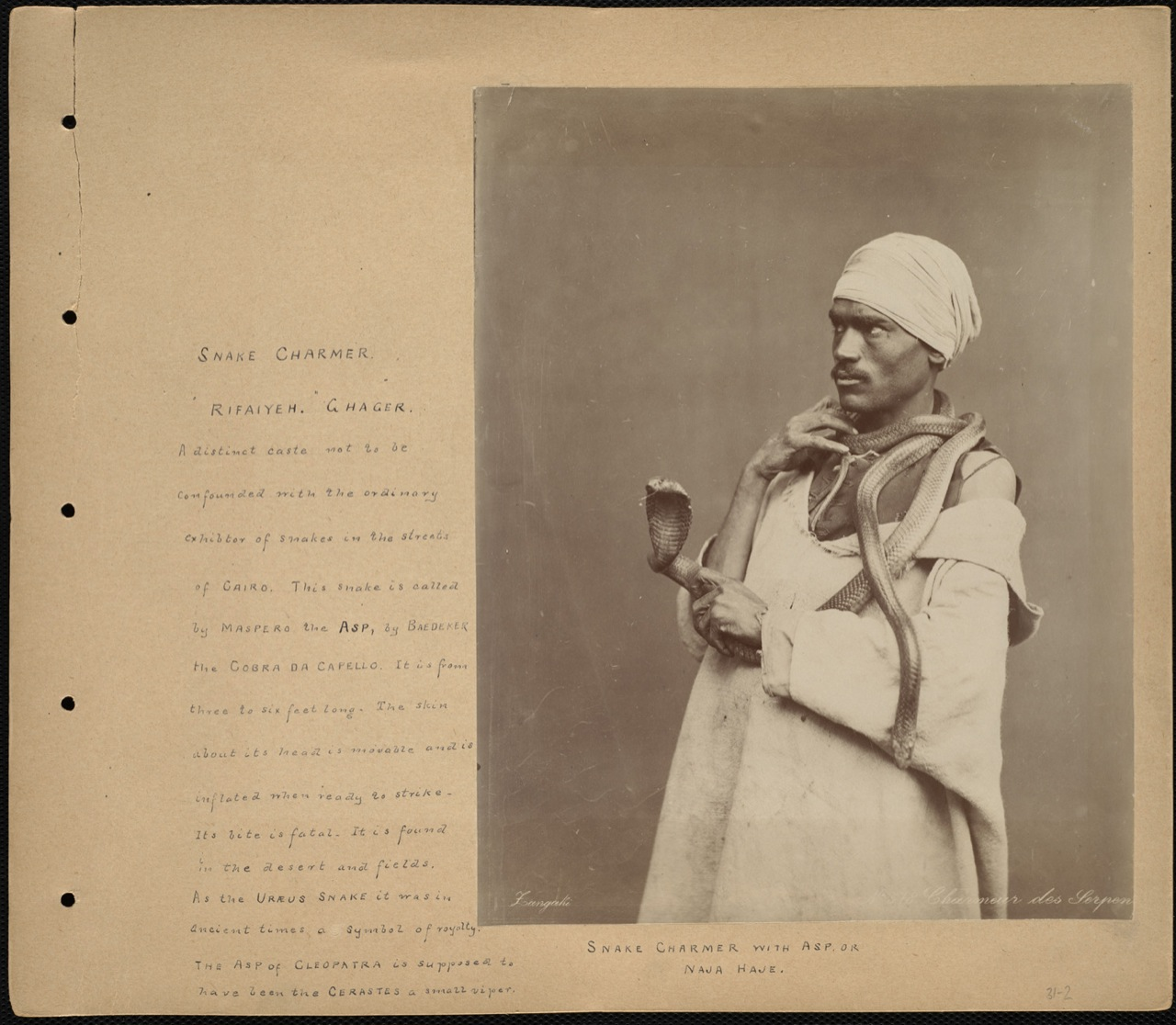 BPLDC no.: 08_04_000183 Page Title: Snake Charmer. Rifaiyeh. Ghager Collection: William Vaughn Tupper Scrapbook Collection Album: On the Nile. Cairo to Luxor. Call no.: 4098B.104 v31(p. 2) Creator: Tupper, William Vaughn Photographer: Adelphoi Zangaki (Firm) Genre: Scrapbooks; Albumen prints Extent: 1 photographic print mounted on page : albumen ; page 33 x 39 cm. Description: Scrapbook page contains one photograph of a snake charmer with a an Asp or Naja Haje. Transcription: Snake charmer. Rifaiyeh. Ghager. A distinct caste not to be confounded with the ordinary exhibitor or snakes in the streets of Cairo. This snake is called Maspero the Asp, by Bædeker the Cobra Da Capello. It is from three to six feet long. The skin about its head is movable and is inflated when ready to strike- Its bite is fatal. It is found in the desert and fields. As the Uræus Snake it was in ancient times a symbol of royalty. The Asp of Cleopatra is suppposed to have been the Cerastes a small viper. Notes: Page description supplied by cataloger, derived from captions and/ or annotated information. ; No. 518 Charmeur des Serpen BPL Department: Print Department Rights: No known restrictions